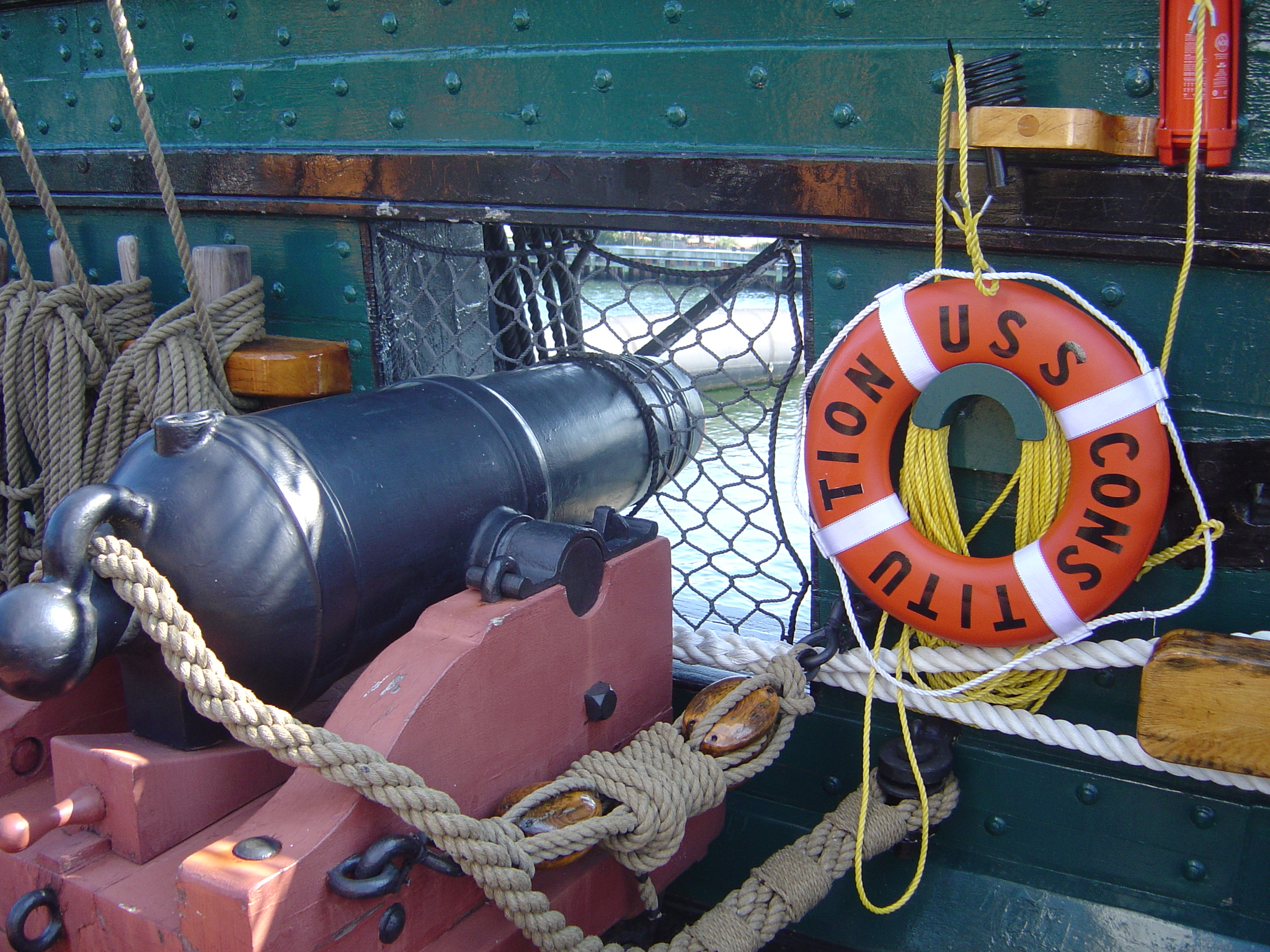 Canon on the U.S.S. Constitution Photograph taken by me with a Sony Cybershot Digital camera, July 2006.